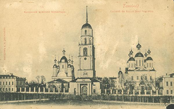 Tambov Kazanskiy monastyr'